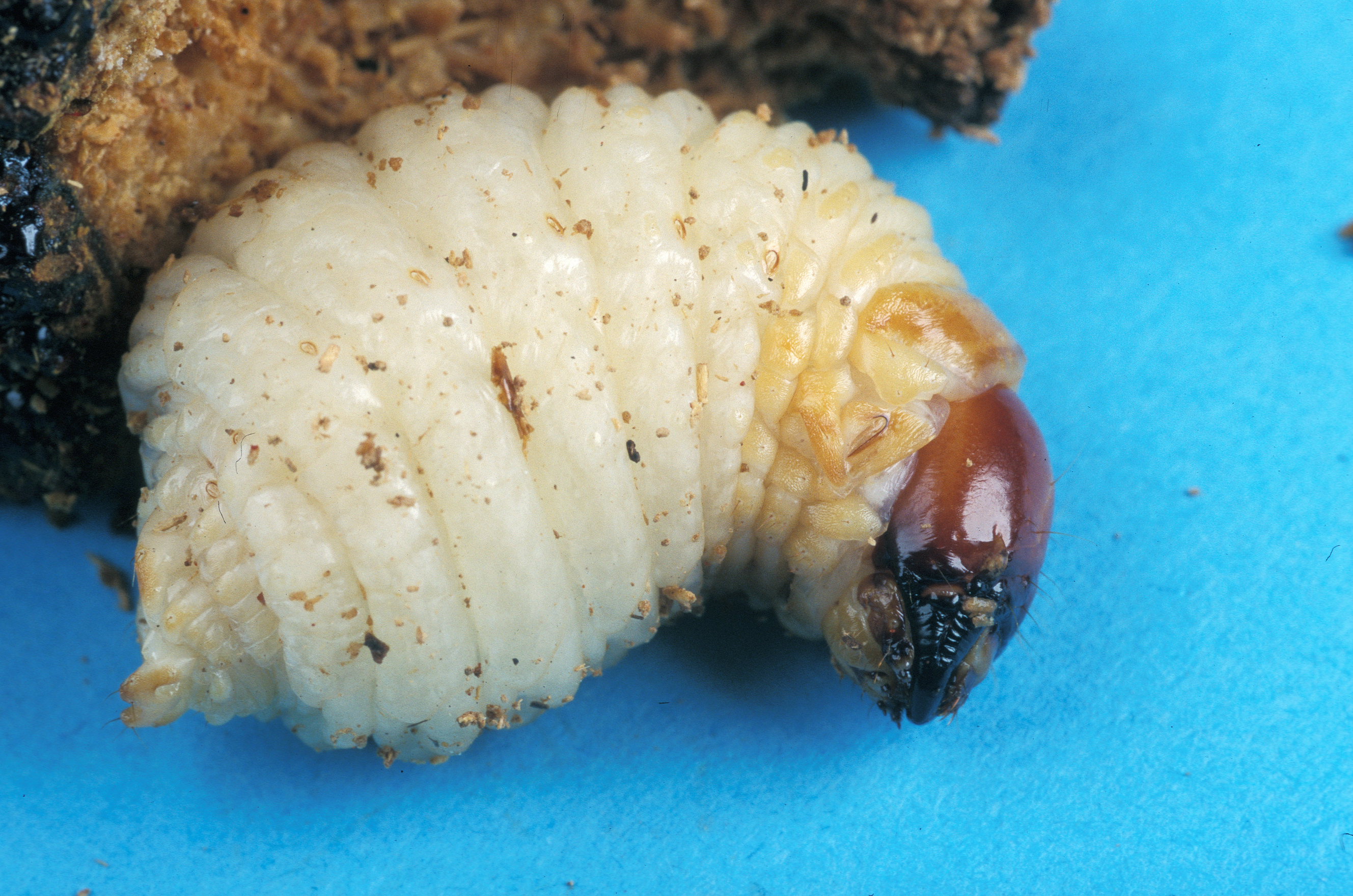 Giant grass-tree weevil (Trigonotarsus rugosus). Class: Insecta Order: Coleoptera Family: Curculionidae Life Stage: larva